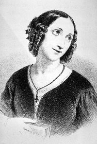 Portrait of Agathe-Sophie Sasserno (litography)